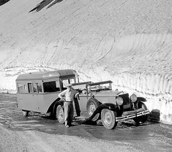 Image Description: Approximate Year: 1933 Park: Glacier National Park Photographer: Grant, George A. Description: California visitors with their car and trailer by a snow bank on the west side of summit, Logan Pass Highway. 7/12/1933. Early example of mobile camp vehicle; car is a 1929-1930 Graham-Paige.